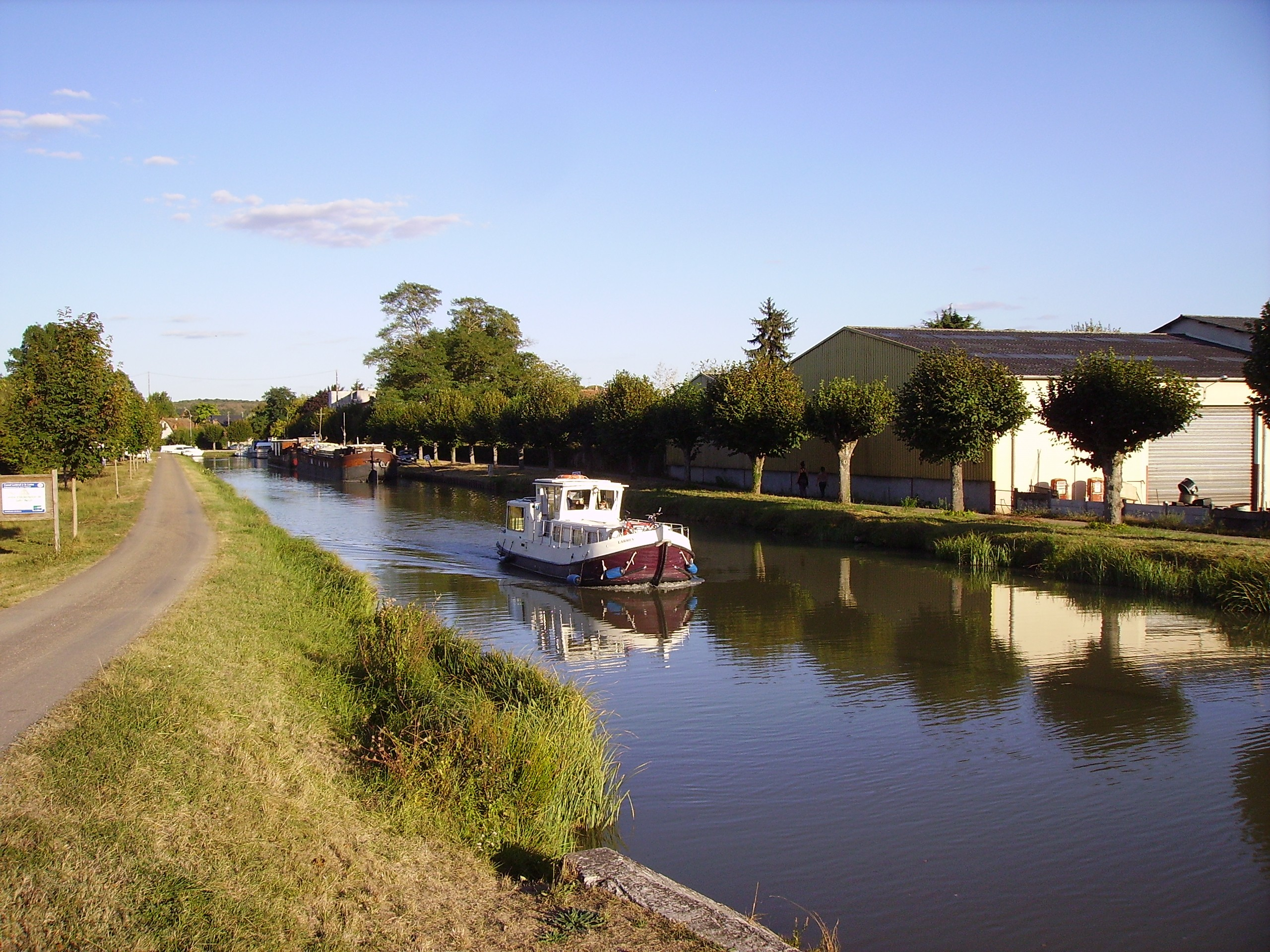 Junction canal of Saint-Satur marina (Saint-Thibault-sur-Loire bifurcation) near the canal latéral à la Loire. Cher department, Centre-Val de Loire region, France.